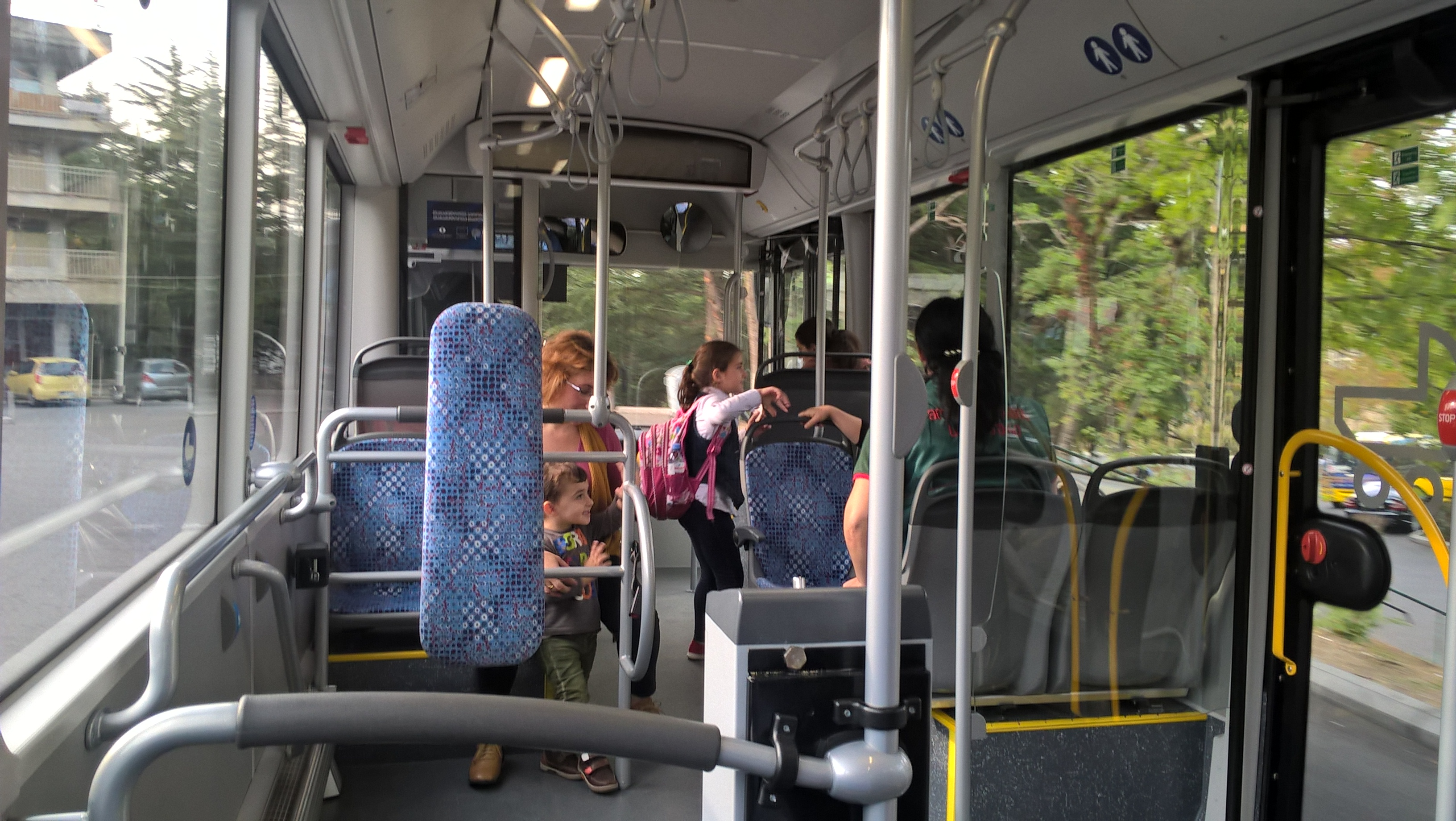 Tbilisi's new city bus - MAN Lion's city A21 CNG